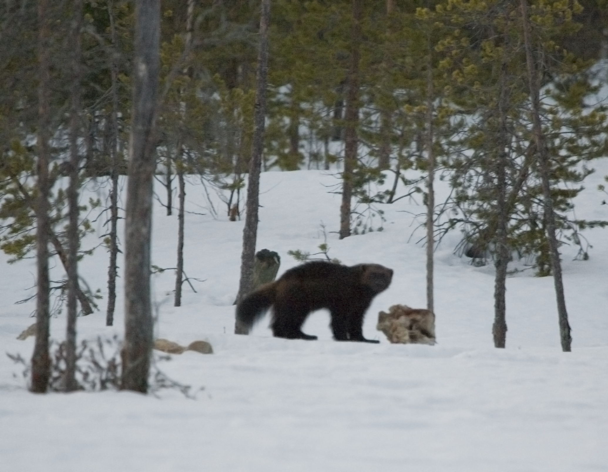 Wolverine (Gulo gulo).